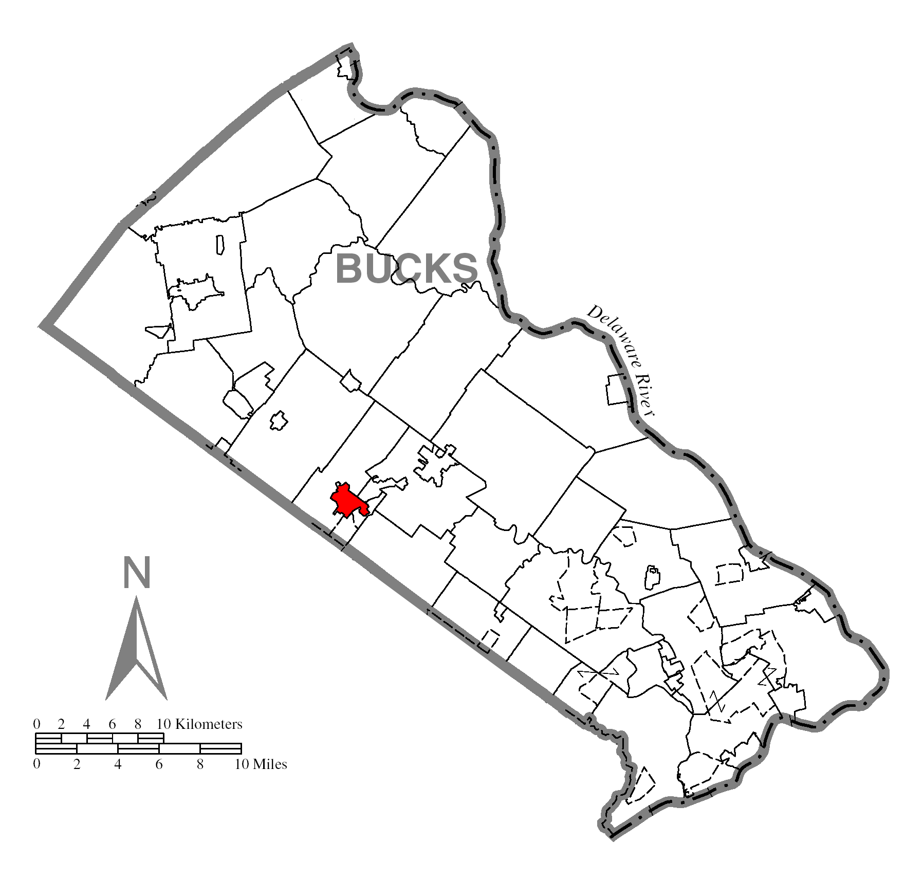 A map of Bucks County showing Chalfont, Pennsylvania (alternate) highlighted on the map.